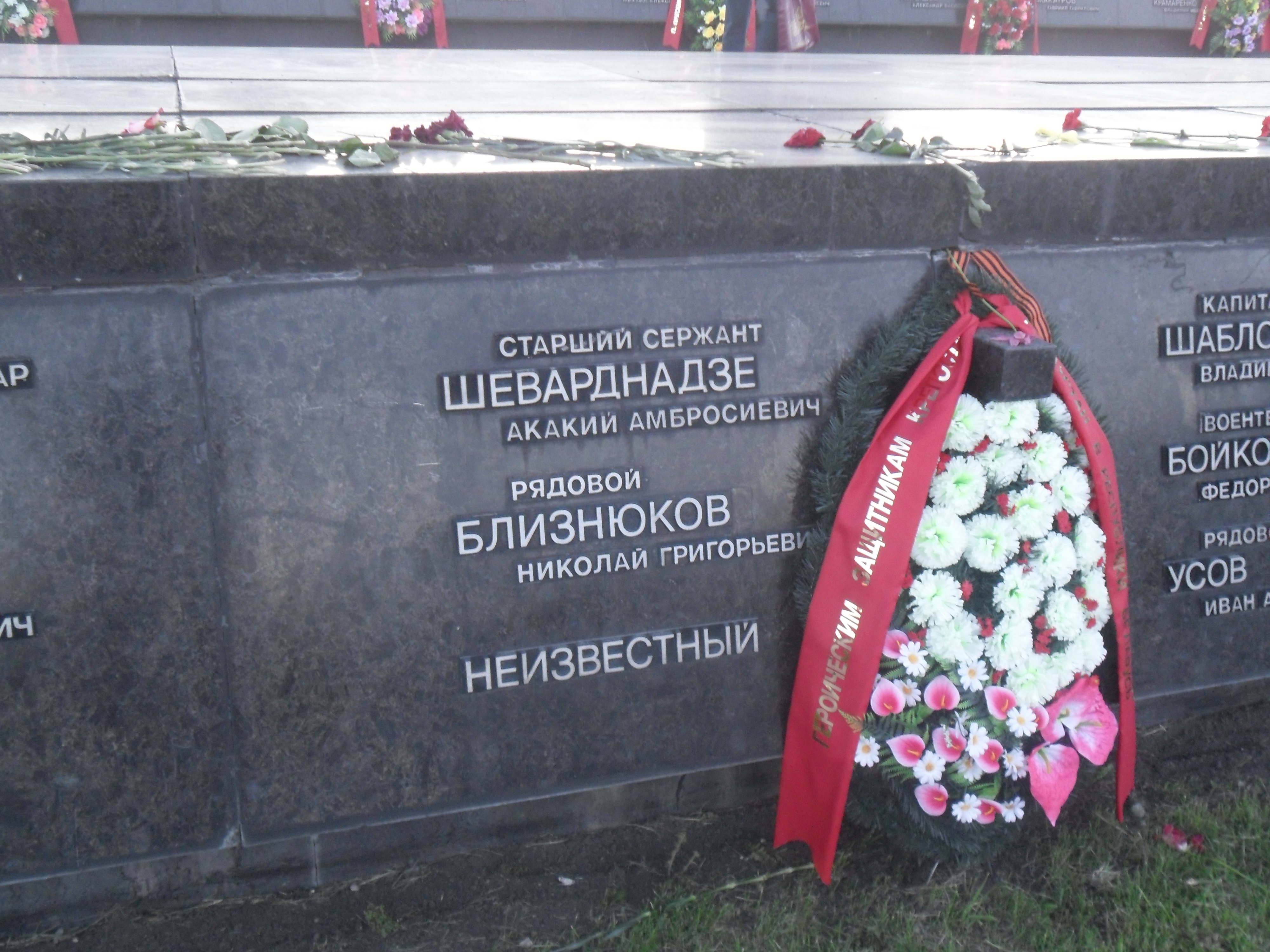 A sign with the name of Sergeant Akaki Shevardnadze, the brother of the former president of Georgia, on the graves of members of Defence of Brest Fortress Square ceremonies.